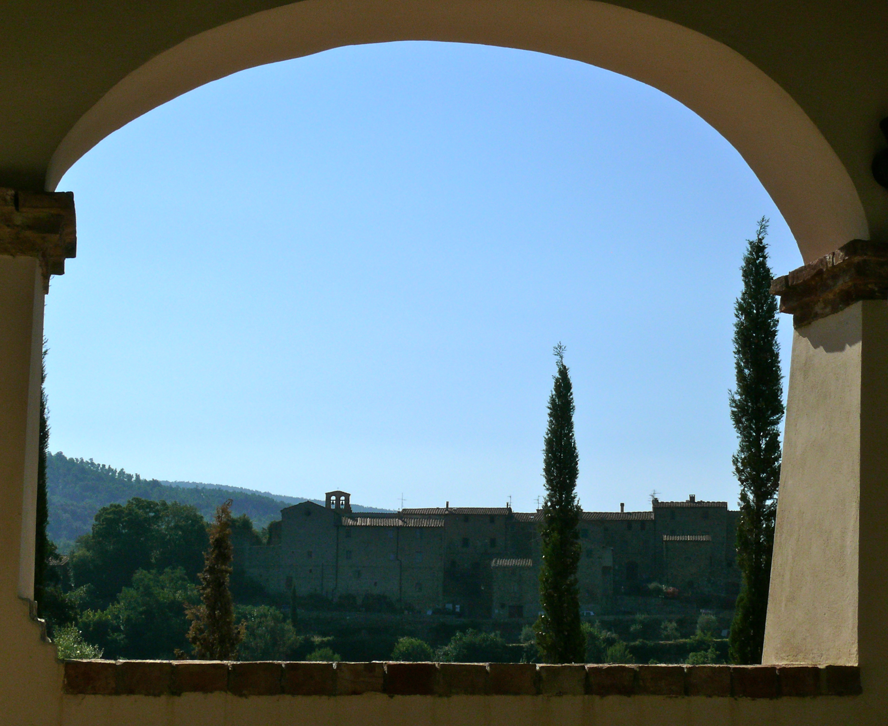 La Leccia of Sasso Pisano